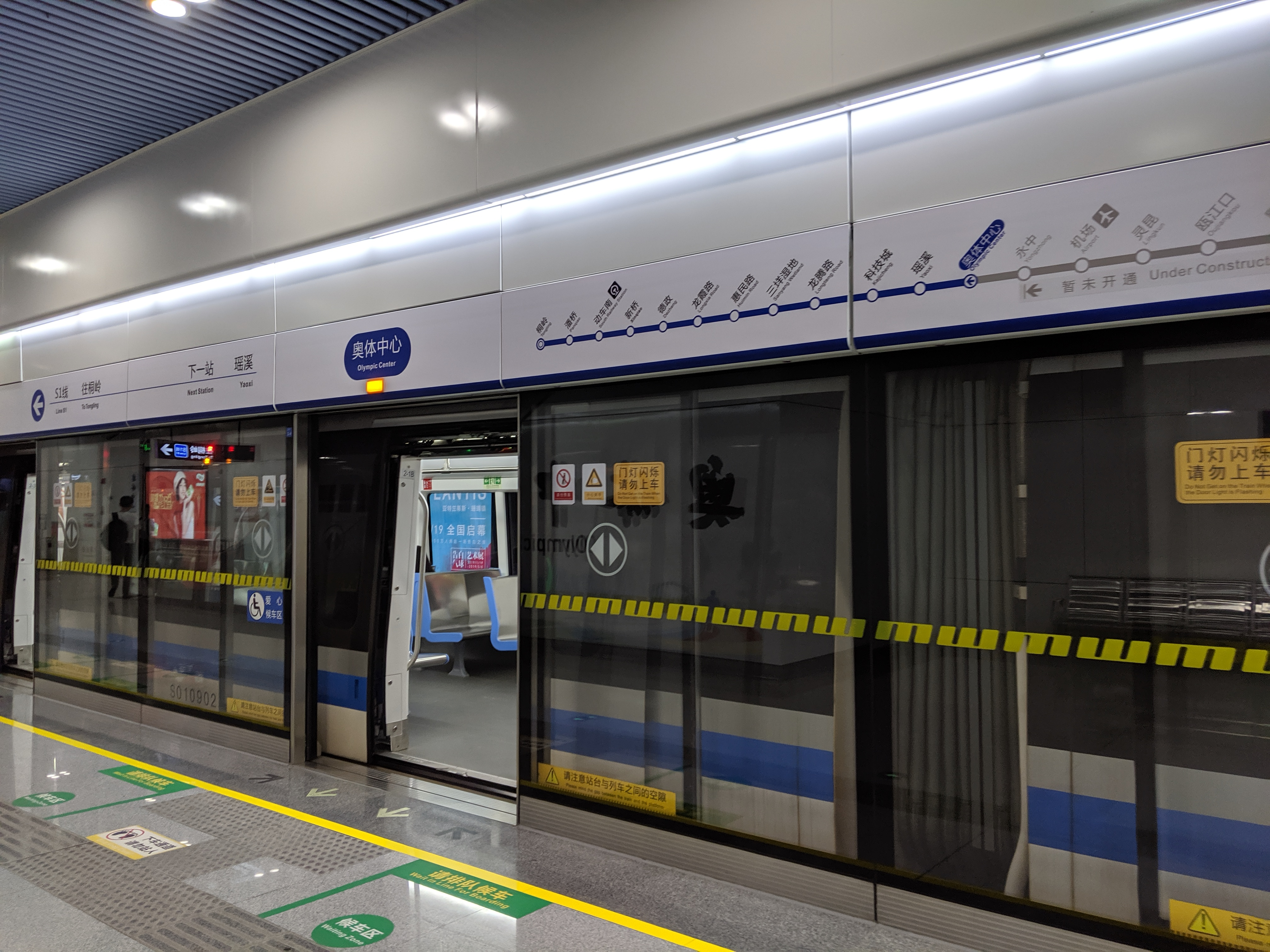 On the platform of WZ-MTR Line S1 Olympic Center Station.